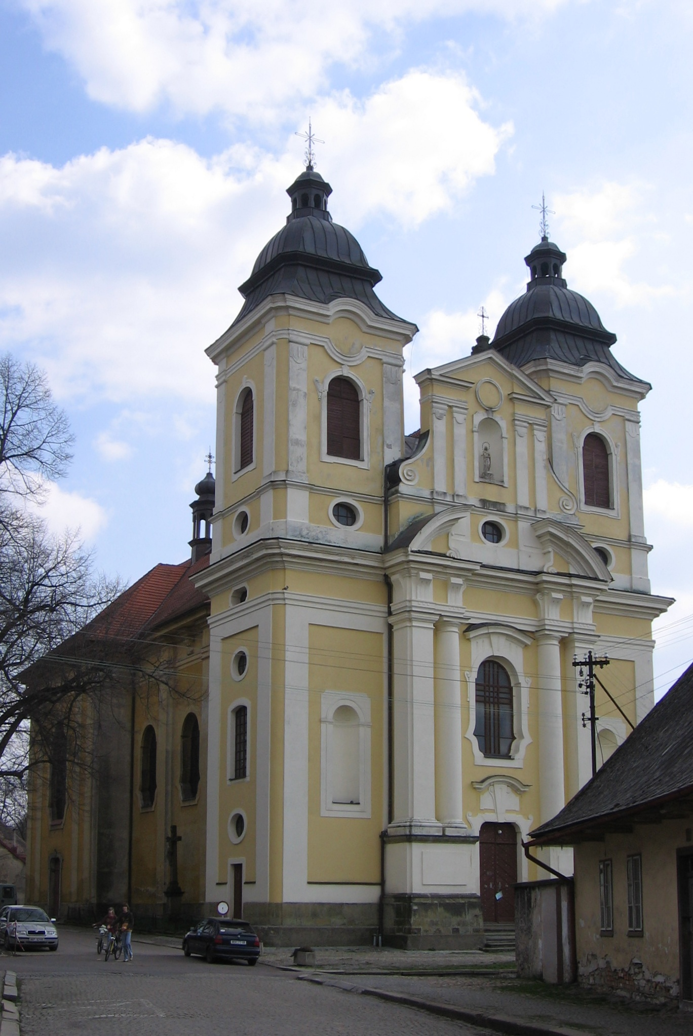 Baroque St. George's Church in Kostelec nad Orlicí